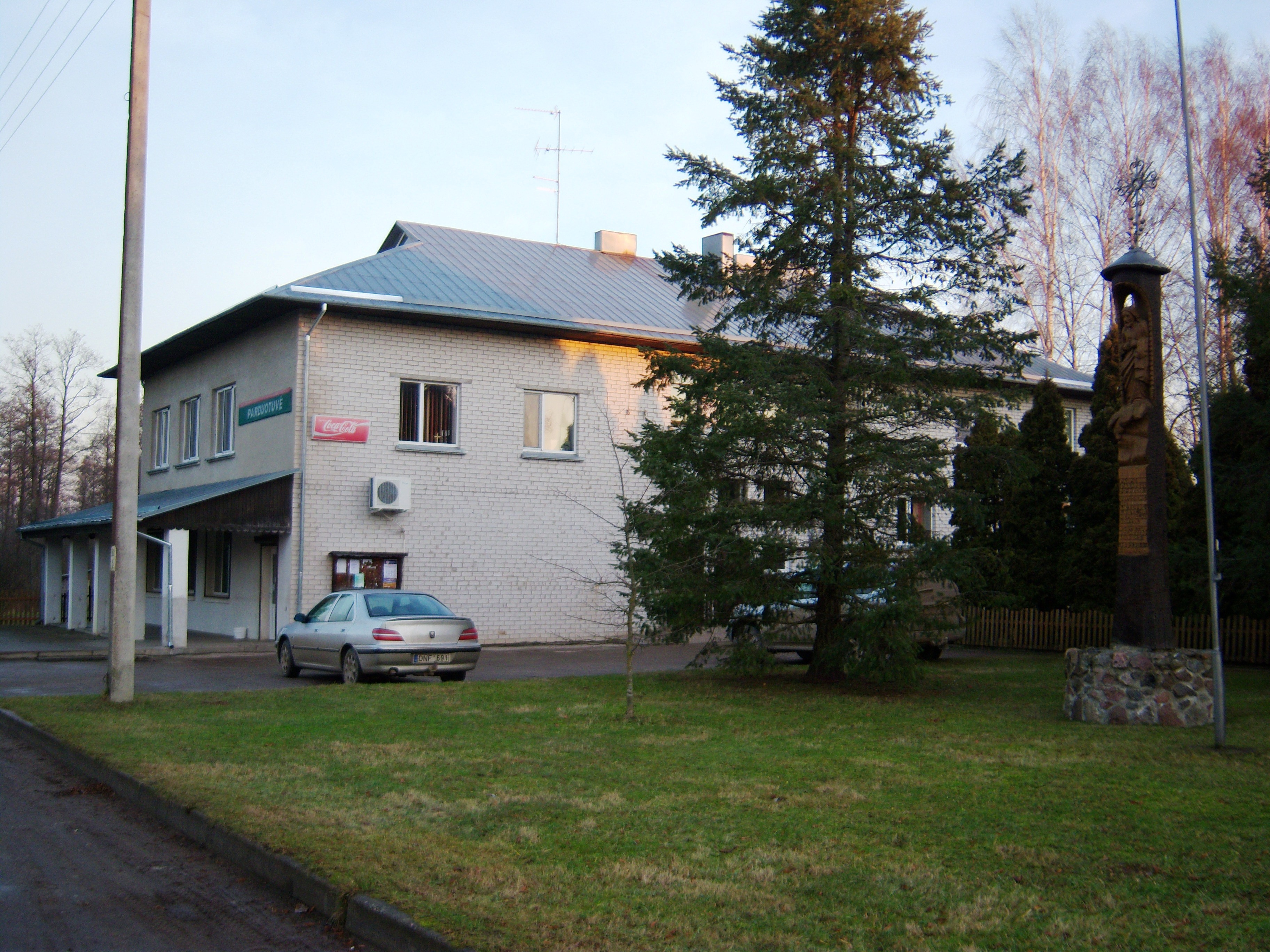 Paupys, Raseiniai District, Lithuania